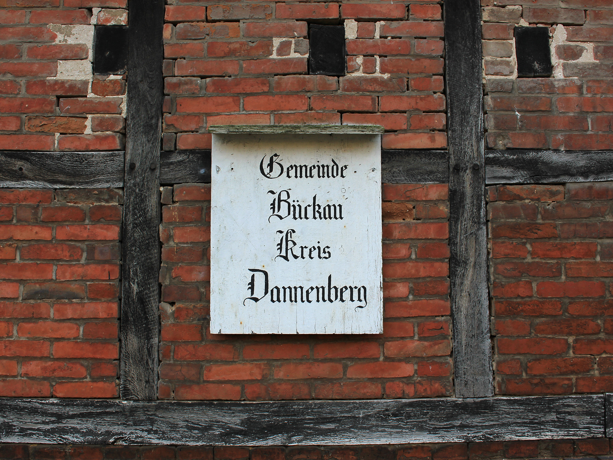 Old sign for the village Bückau near Dannenberg (Elbe), attached to a shed facade. According to a local resident, it is a refurbished original from the 1930s.